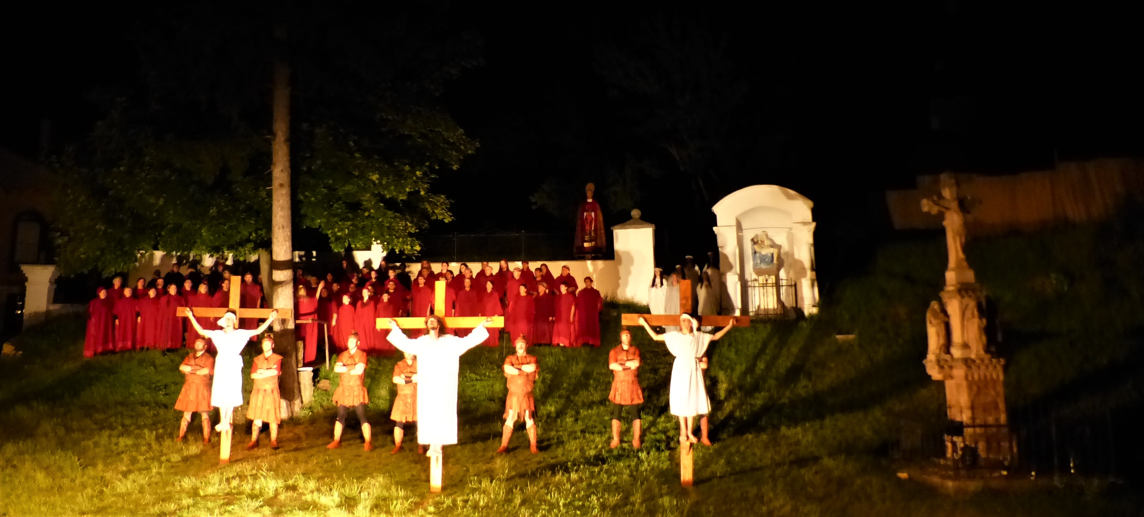 Passion of Jesus Christ. Magyarpolány, on the 15ht of June, 2019.